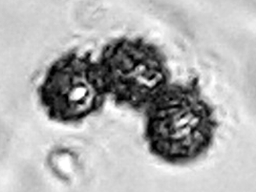 800x spores of Russula Atropurpurea found in a field in Wales, United Kingdom.